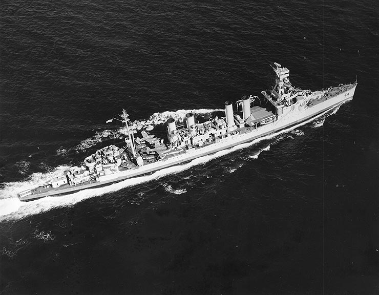 The U.S. Navy Omaha-class light cruiser USS Trenton (CL-11) underway in the Gulf of Panama on 11 May 1943.